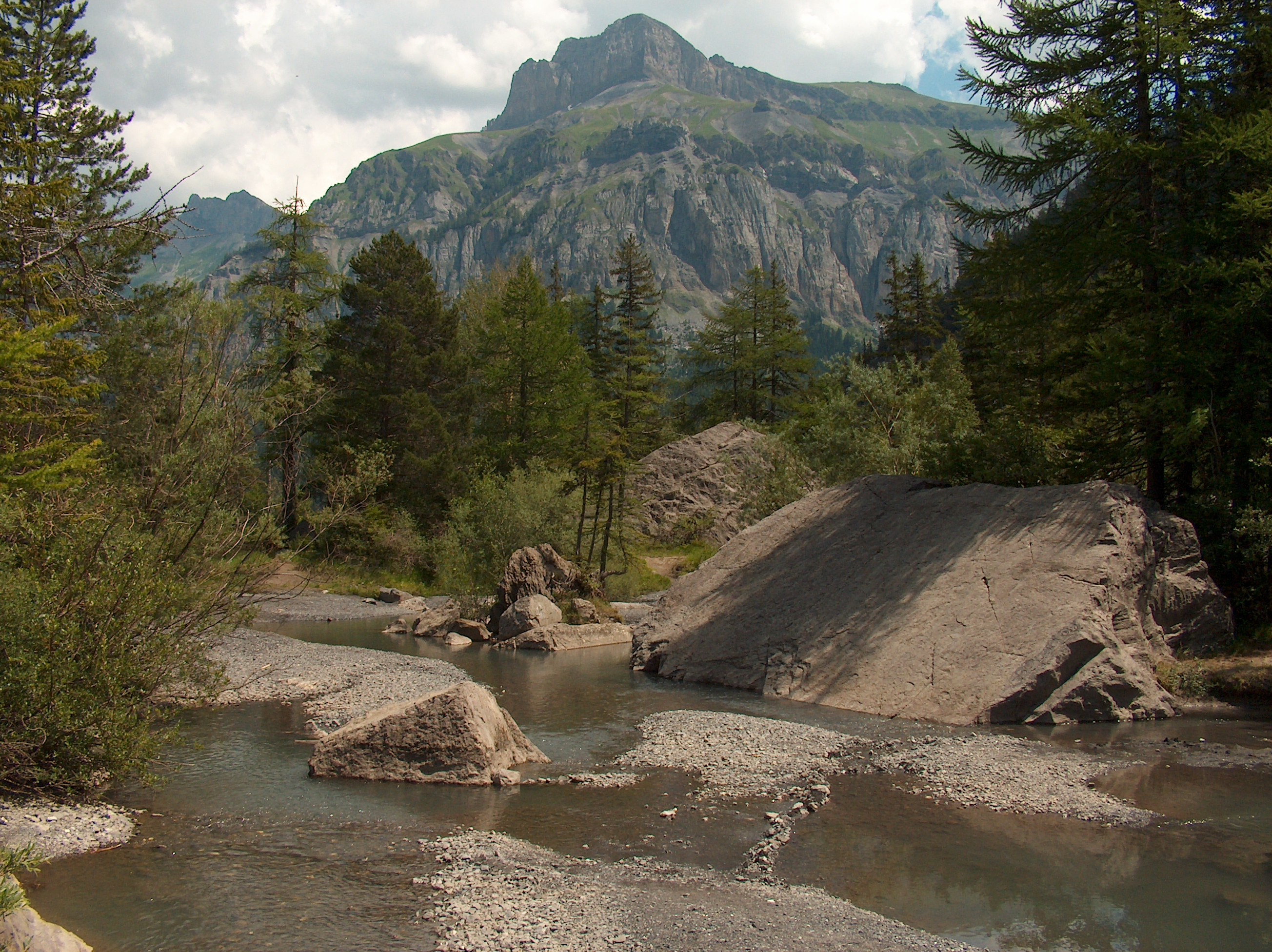 View at fallen stones at Lac de Deborence